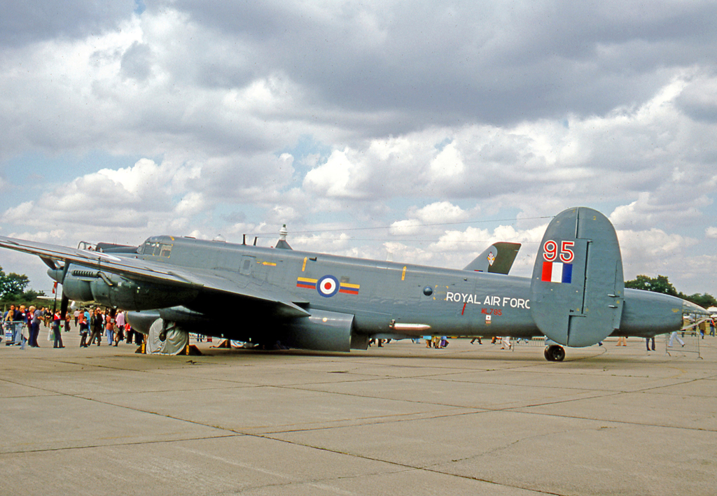 Avro 696 Shackleton AEW.2 WL795 of No.8 Squadron RAF at RAF Greenham Common in 1976.